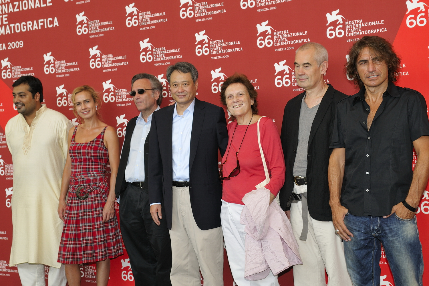 Jury of 2009 Venice Film Festival. From left to right:Anurag Kashyap (Indian director), Sandrine Bonnaire (French actress), Joe Dante (American director), Ang Lee (Taiwanese American film director), Liliana Cavani (Italian director), Sergei Vladimirovic Bodrov (Russian director), Luciano Ligabue (Italian rock singer and film director).